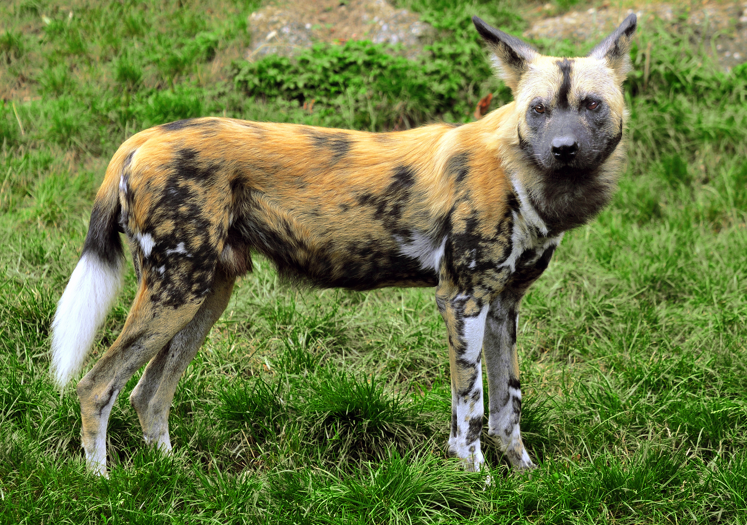 Only 3000-5000 African Wild Dogs lived 1997 in the wild. They are endangered.